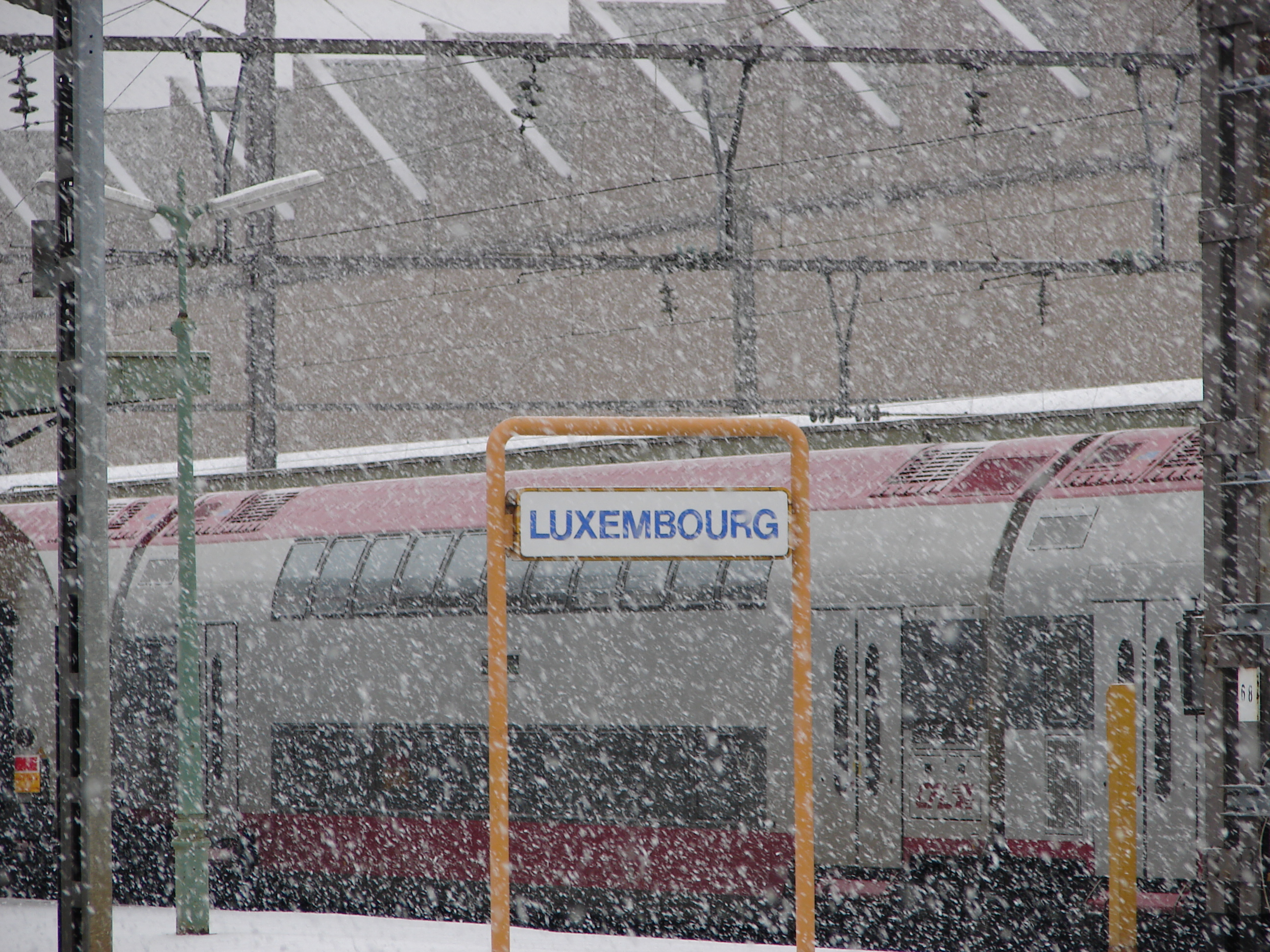 Vikram Bajaj